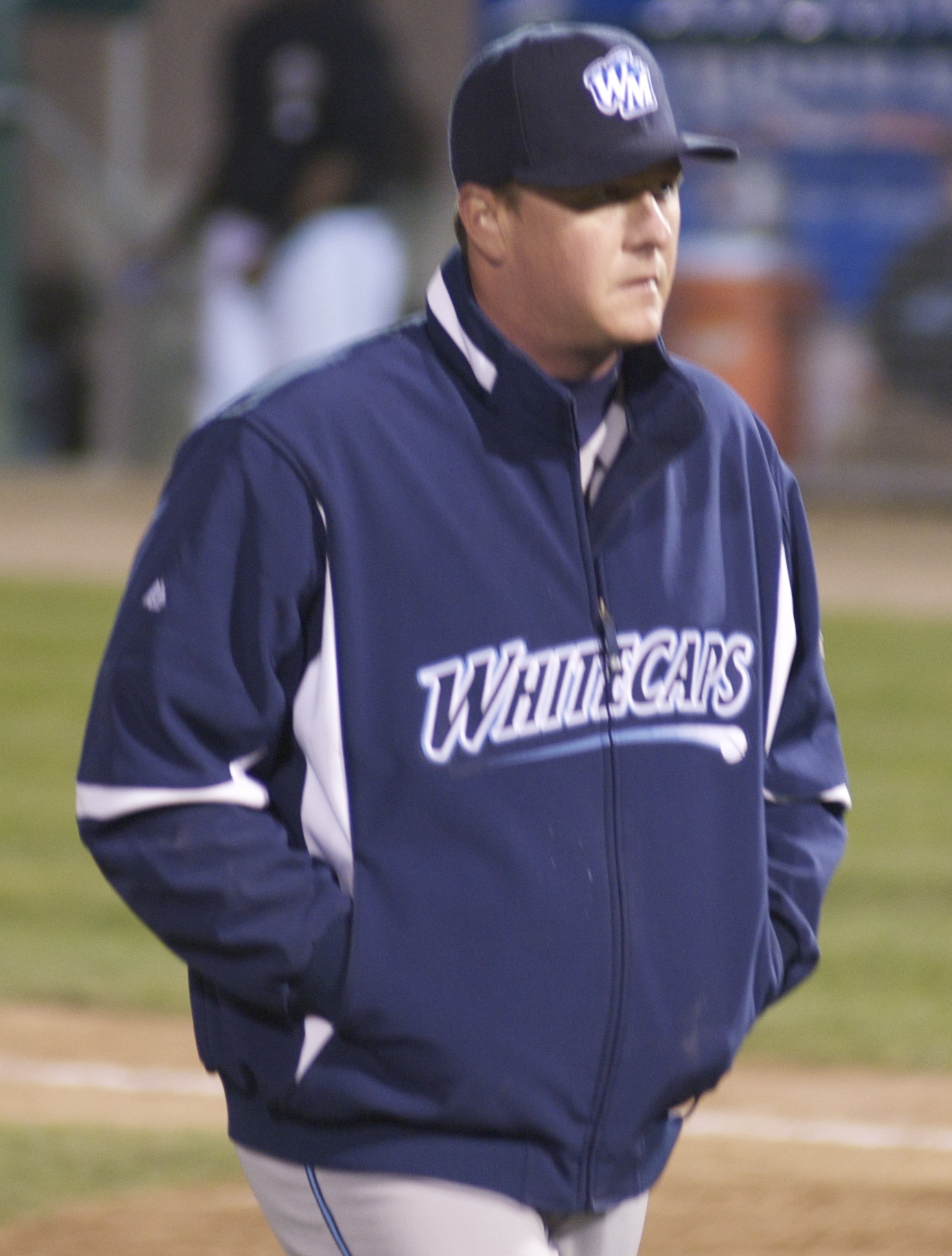 Mark Johnson, pitching coach of the West Michigan Whitecaps, during a 2008 game in Lansing, Michigan